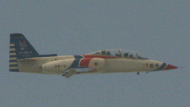 AT-3 over Gangshan Air Force Base